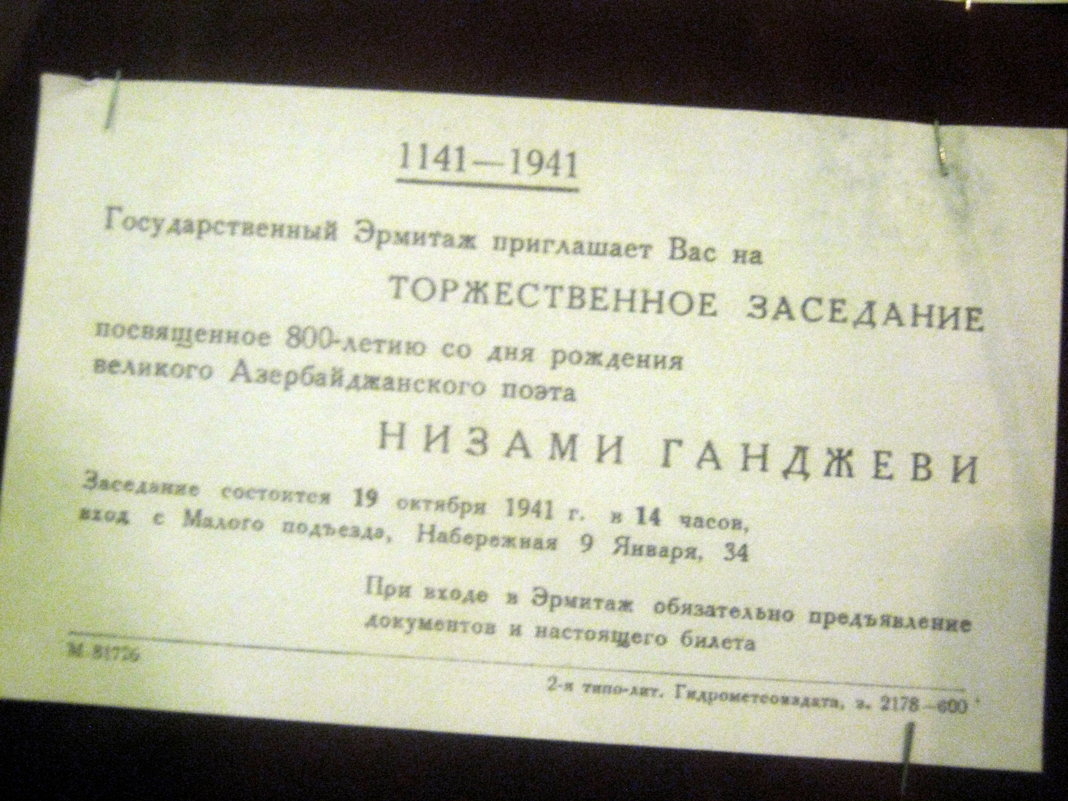 Announcement of the 800th anniversary of Nezami Ganjavi in The Hermitage, Leningrad, during the Siege of Leningrad in October, 1941